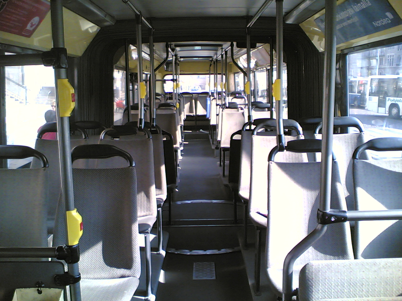 Wiima N202 articulated bus interior with Volvo B10MA-55 chassis in Helsinki, Finland. Helsingin Bussiliikenne operator.